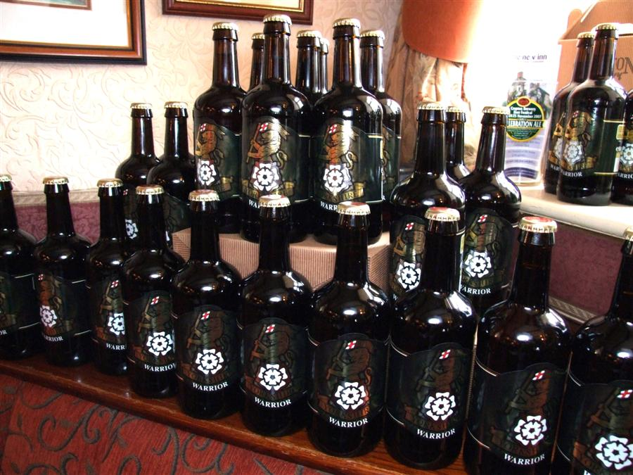 Display of Yorkshire Warrior Beer Bottles. The beer was produced by the Cropton Brewery, North Yorkshire, UK for the Yorkshire Regiment. Proceeds of the beer are given to the Regimental Benevolent Fun